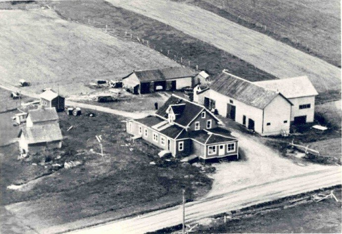 Aerial view of Pinet house, in Burnsville, New Brunswick, Canada.